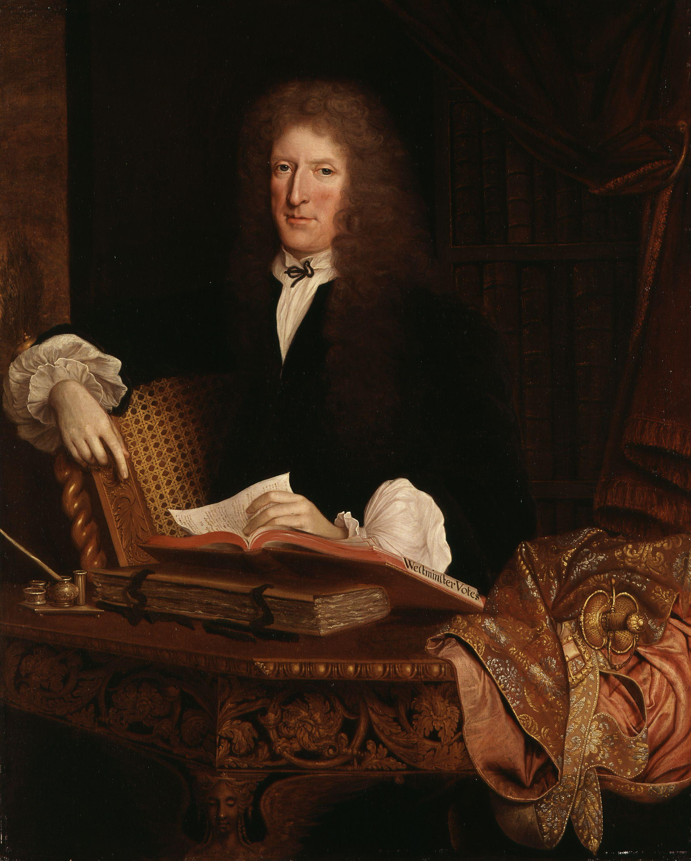 Sir Roger L'Estrange, by John Michael Wright (died 1694). All images in this batch have been confirmed as author died before 1939 according to the official death date listed by the NPG.